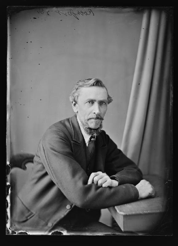 Mr Rochfort